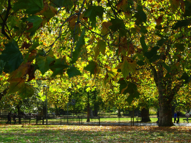 Kennington Park Leaves are in the process of turning brown in this autumnal view of Kennington Park.